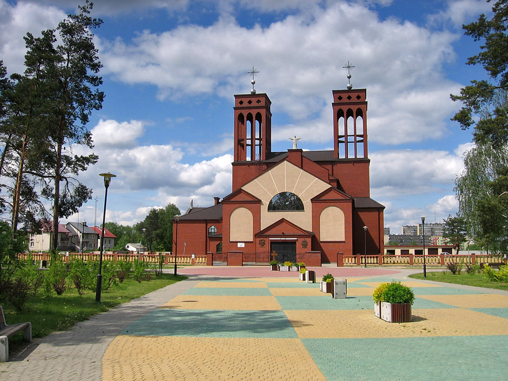 City of Ostroleka (Poland), church of Christ the Redeemer.